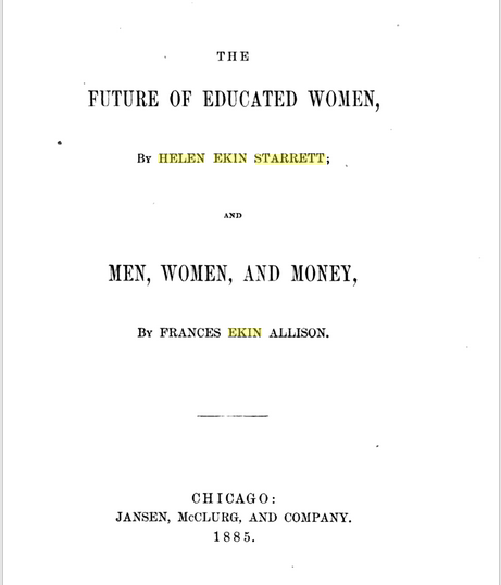 The Future of Educated Women (1885), By Helen Ekin Starrett